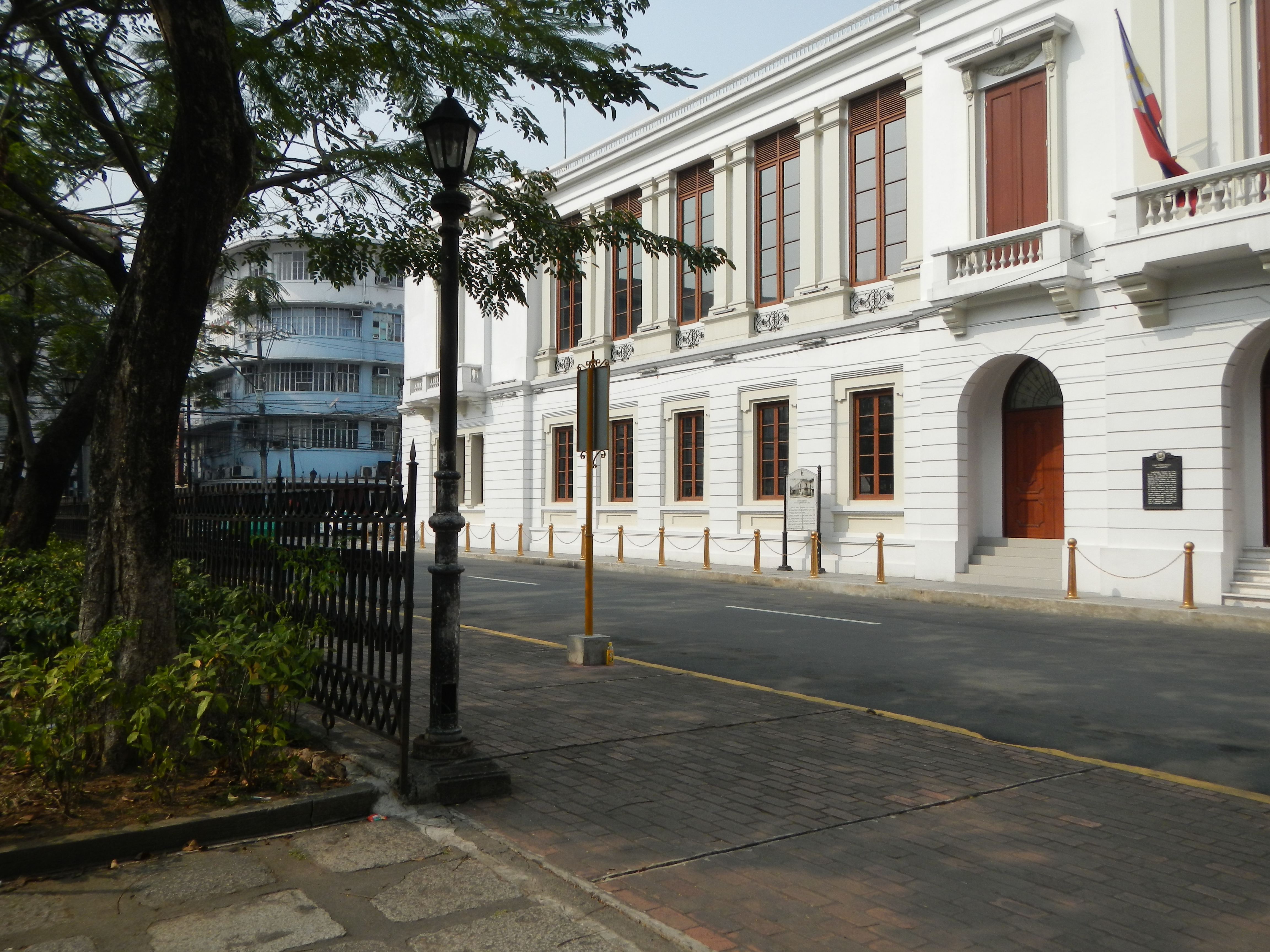 Casa Consistoriales (Ayuntamiento), Intramuros, 1735, now Bureau of Treasury (BTr), Department of Finance (Philippines) in front of the Plaza de Roma, Intramuros